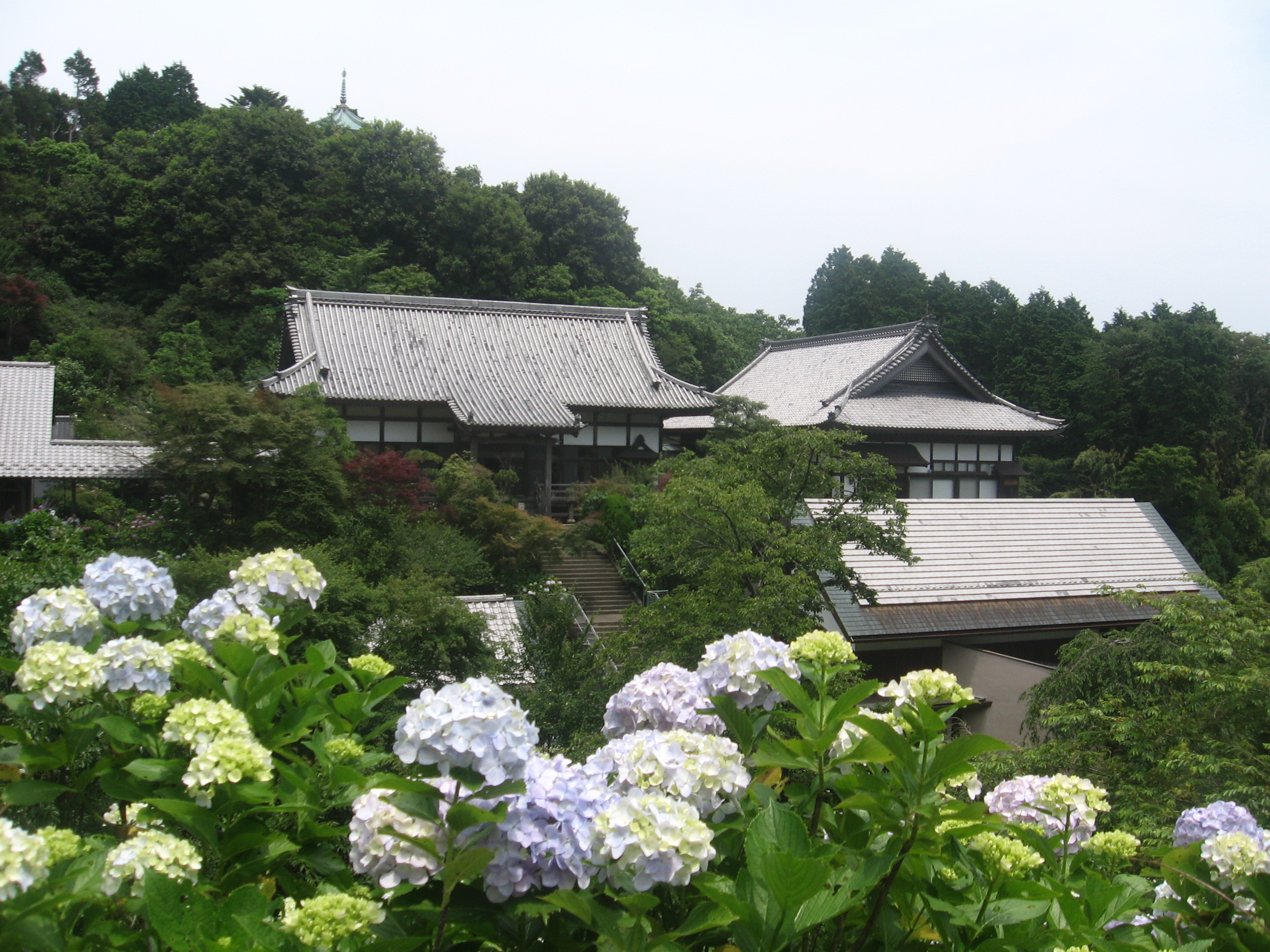 Myouhousyouji temple,Otaki,Chiba,Japan